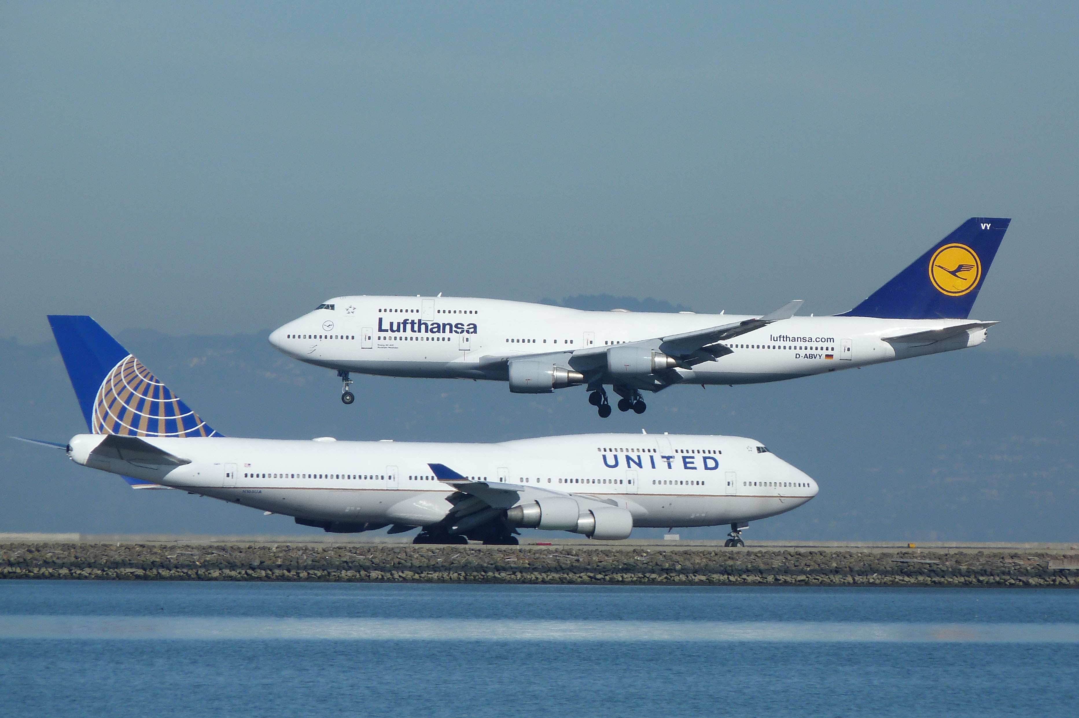 San Francisco 11-13-13. Testing those 91-year old reflexes...